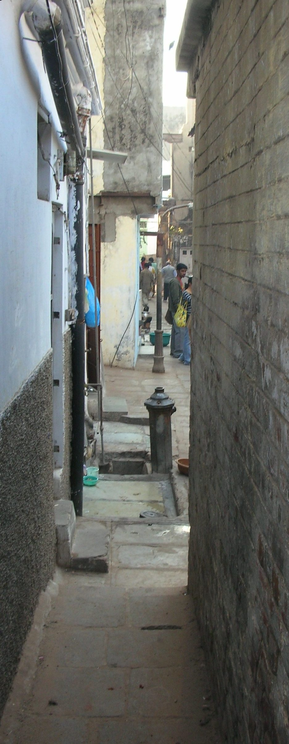 Photos of Ahmedabad's Walled City taken during the Heritage Walk conducted jointly by Ahmedabad Municipal Corporation and the CRUTA Foundation